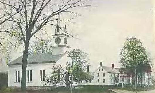 Baptist Church, East Northwood, NH; from a c. 1910 postcard.